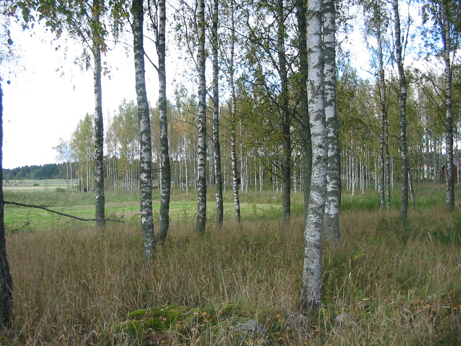 The historical site of the village Manninen in Ypäjä, Finland. The houses of the village are now located elswhere in the nearby area.